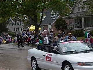 Picture of 2009 bandmaster float